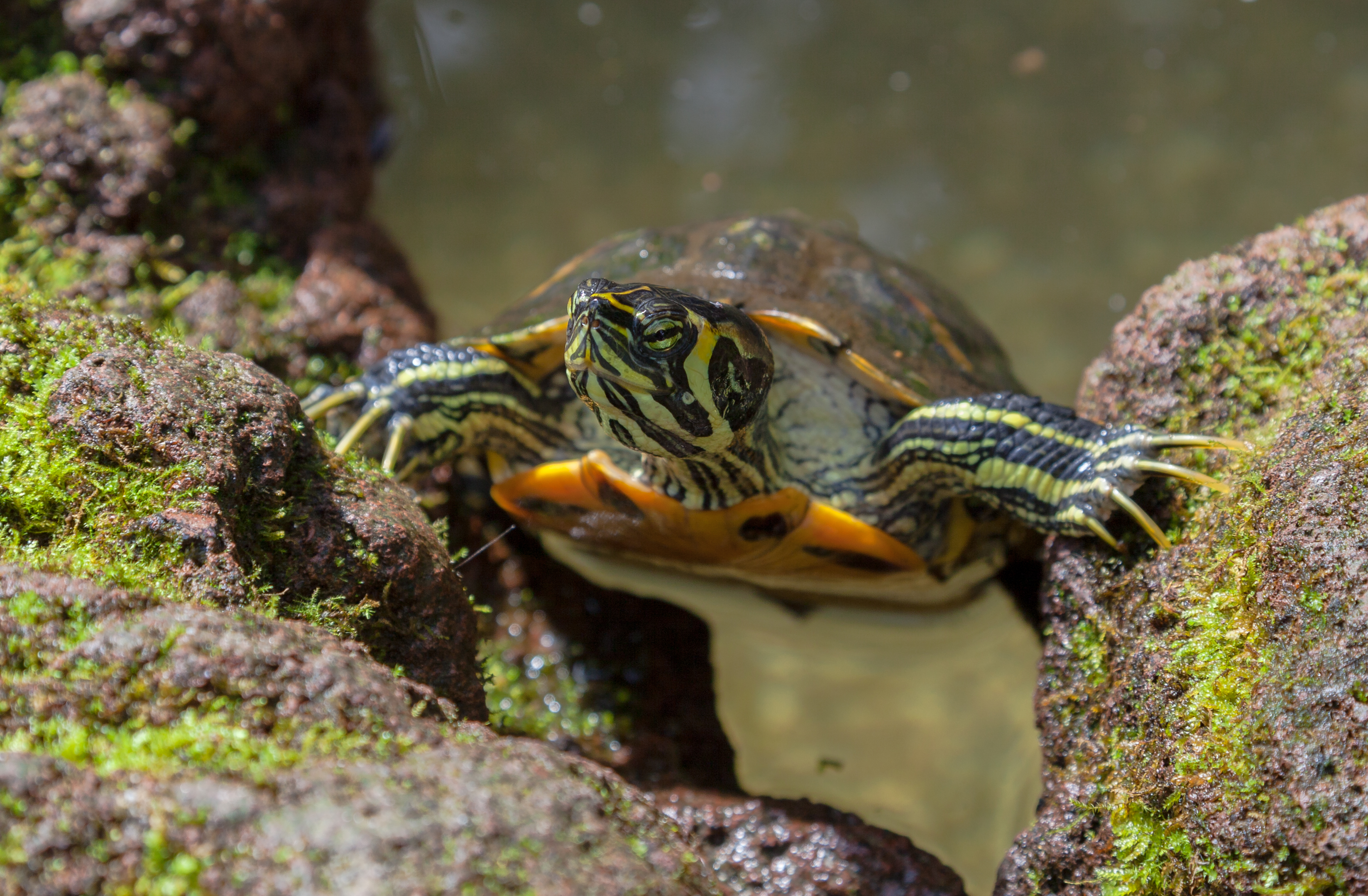 Male slider (Trachemys scripta scripta), Botanic Garden, Munich, Germany